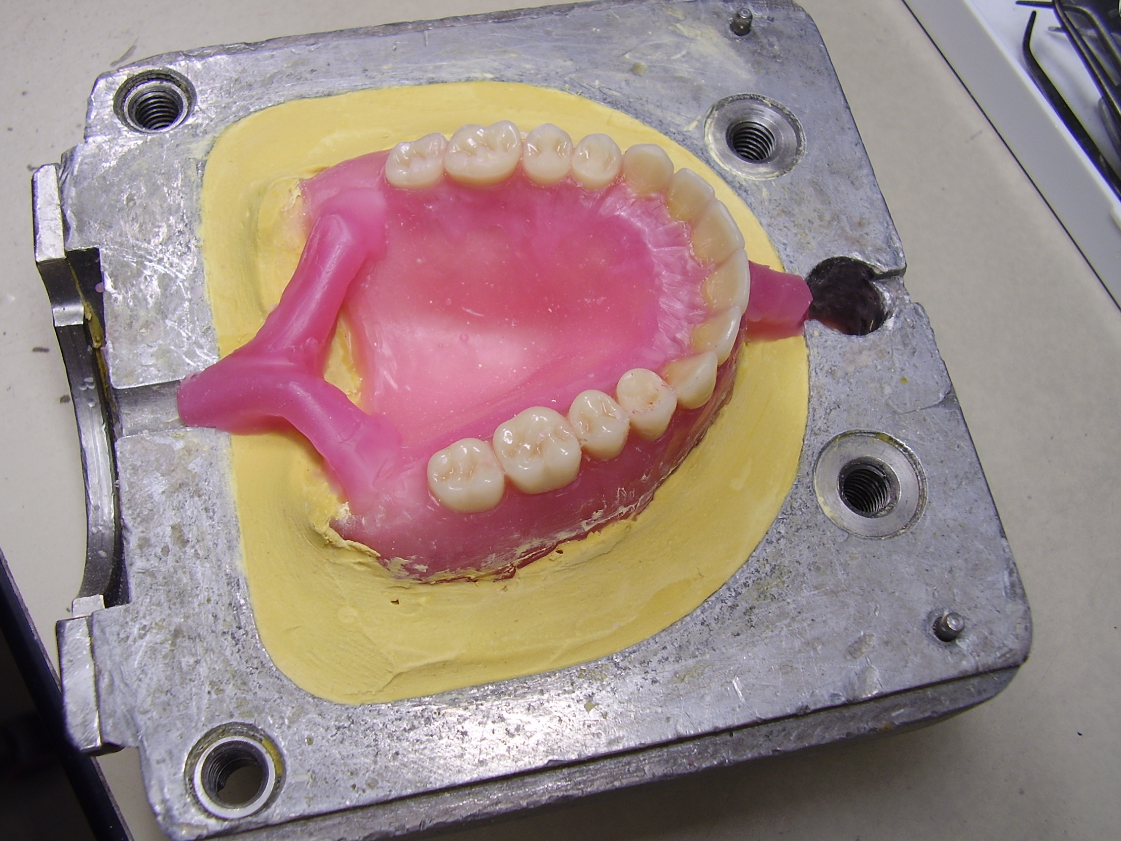 making of complete denture